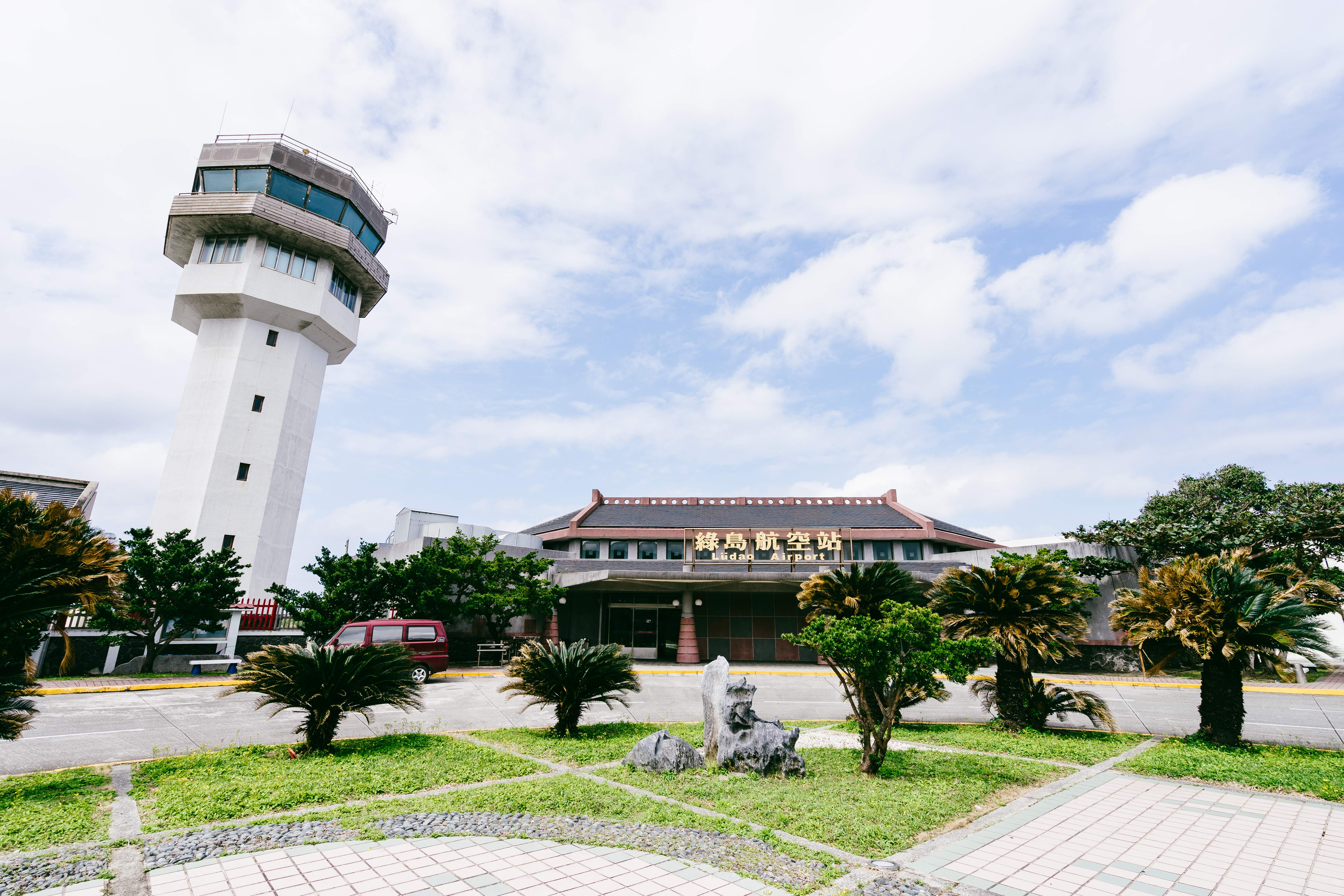 Control tower and terminal at Lyudao Airport